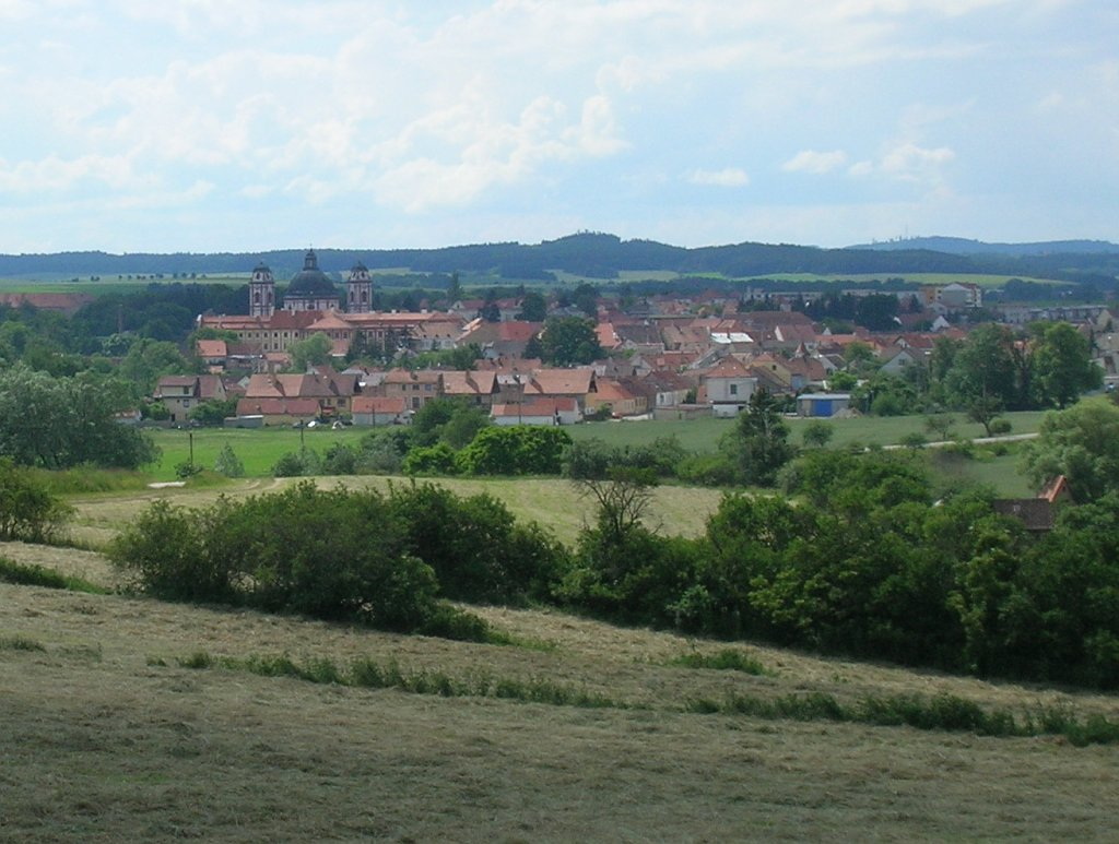 Jaroměřice nad Rokytnou -- thumbnail -- view from the East